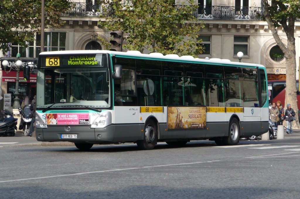 Irisbus Citelis Line on line 68 leaving Palais Royal bus stop